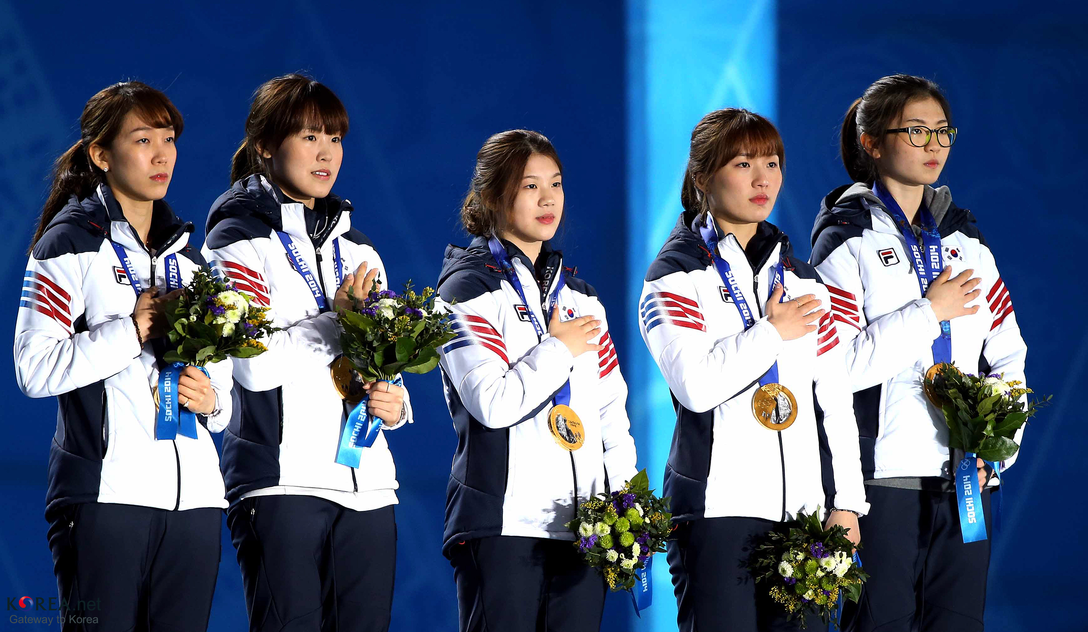 Medal Ceremony for Short Track Ladies’ 3000m Relay Team Korea won the gold medal in the ladies' 3,000-meter short track relay at the Sochi 2014 Olympic Games in Sochi, Russia. February 18, 2014 Medal Plaza, Sochi, Russia Photo: The Korean Olympic Committee Related Articles -English- 'Olympic Silver Medal is Invaluable': Shim Suk-hee -Russian- «Серебряная олимпийская медаль бесценна», - Шим Сук Хи -Deutsch- ,Olympische Silbermedaille ist von unschätzbarem Wert‘: Shim Suk-hee -日本語- シム・ソッキ、「五輪銀メダルに満足」 2014 소치 동계올림픽 쇼트트랙 여자 3000m 계주 시상식 2014-02-18 러시아, 소치. 메달플라자 사진: 대한체육회